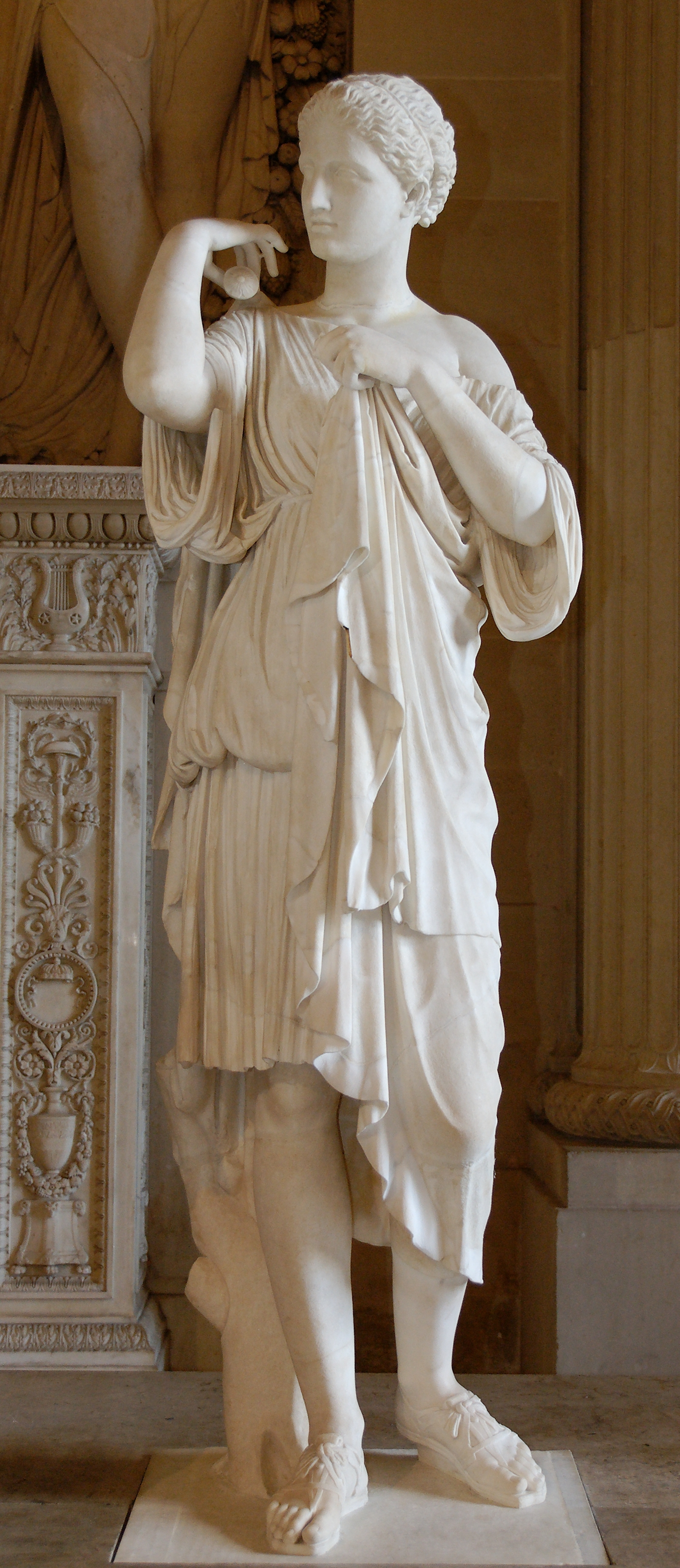 So-called Artemis of Gabii. Marble, Roman copy of the reign of Tiberius (14-37 CE) after a Greek original traditionnally attributed to Praxiteles. Found in 1792 by Gavin Hamilton at Gabii, Italy.